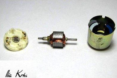 4 slides that show a common brushed DC electric motor and its insides: rotor (armature), brushes (commutator) and a stator (with permanent magnets)